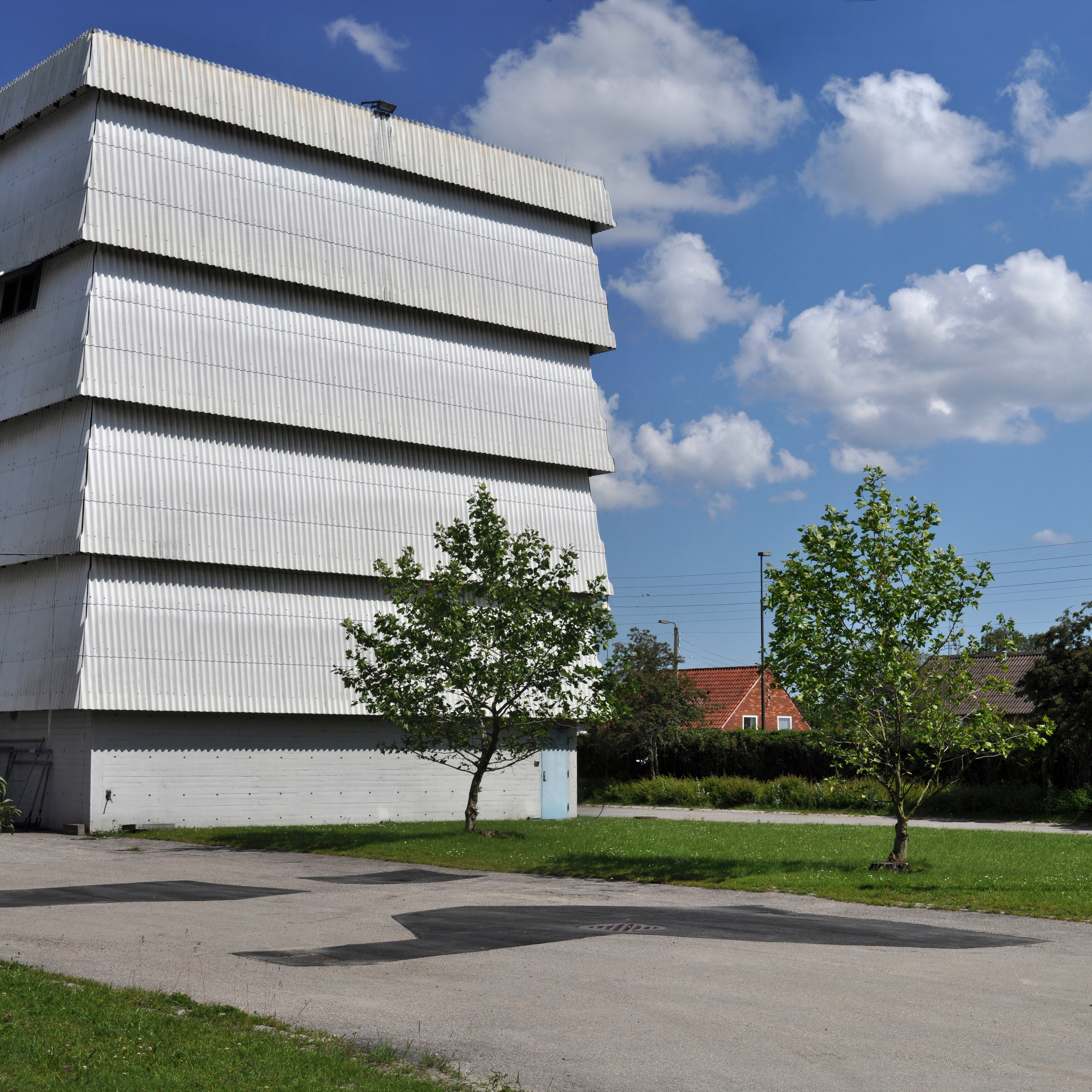 amager koblingsstation (facility for the distribution of electricity), irlandsvej 95, copenhagen 1966-1968. architect: hans chr. hansen, 1901-1978, working for the copenhagen municipal architects department under f.c.lund, 1896-1984.